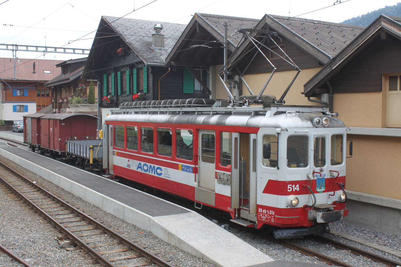 TPC-AOMC BDeh 4/4 514 at Troistorrents station.